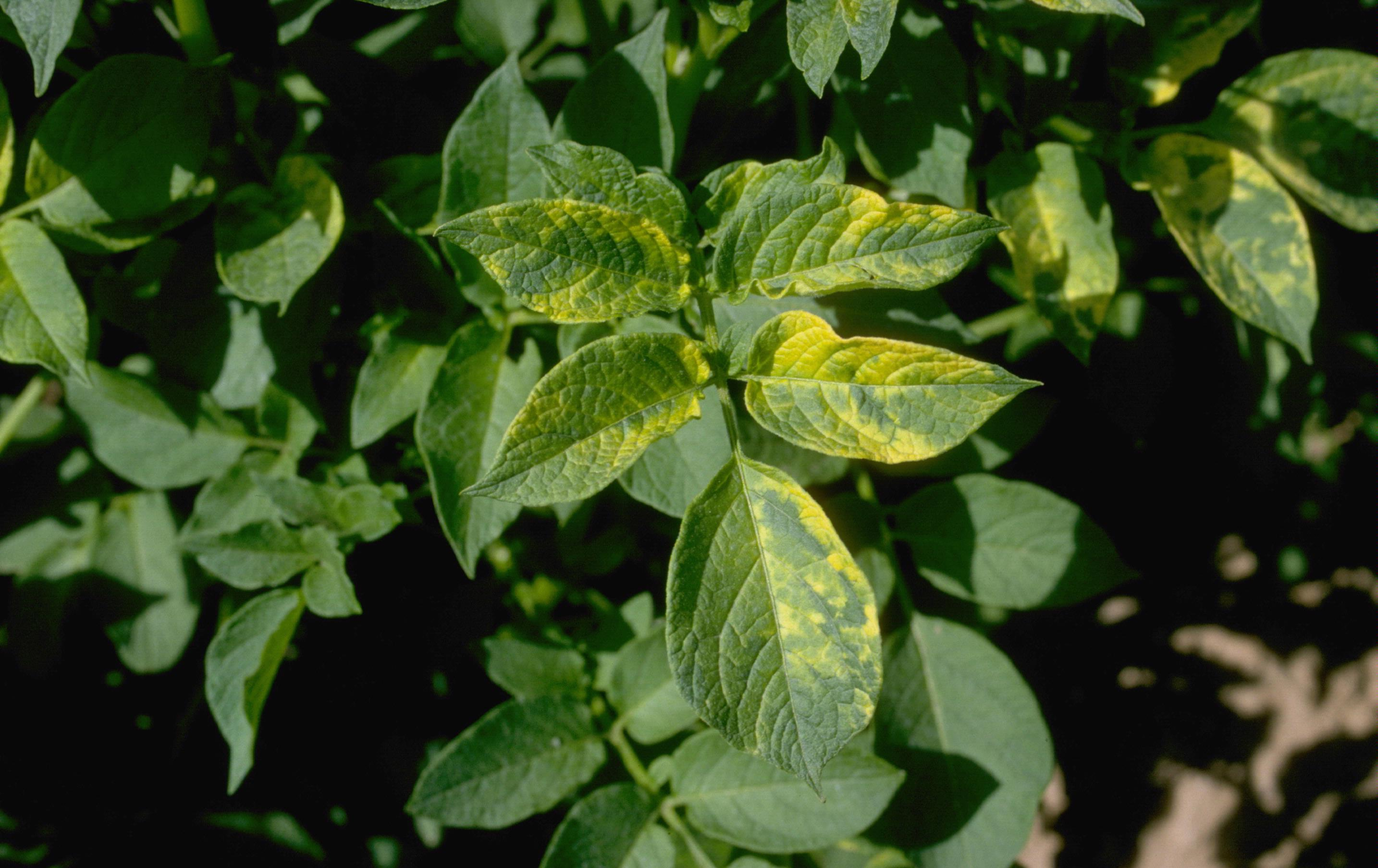 Symptoms of Alfalfa Mosaic Virus on potato leaves